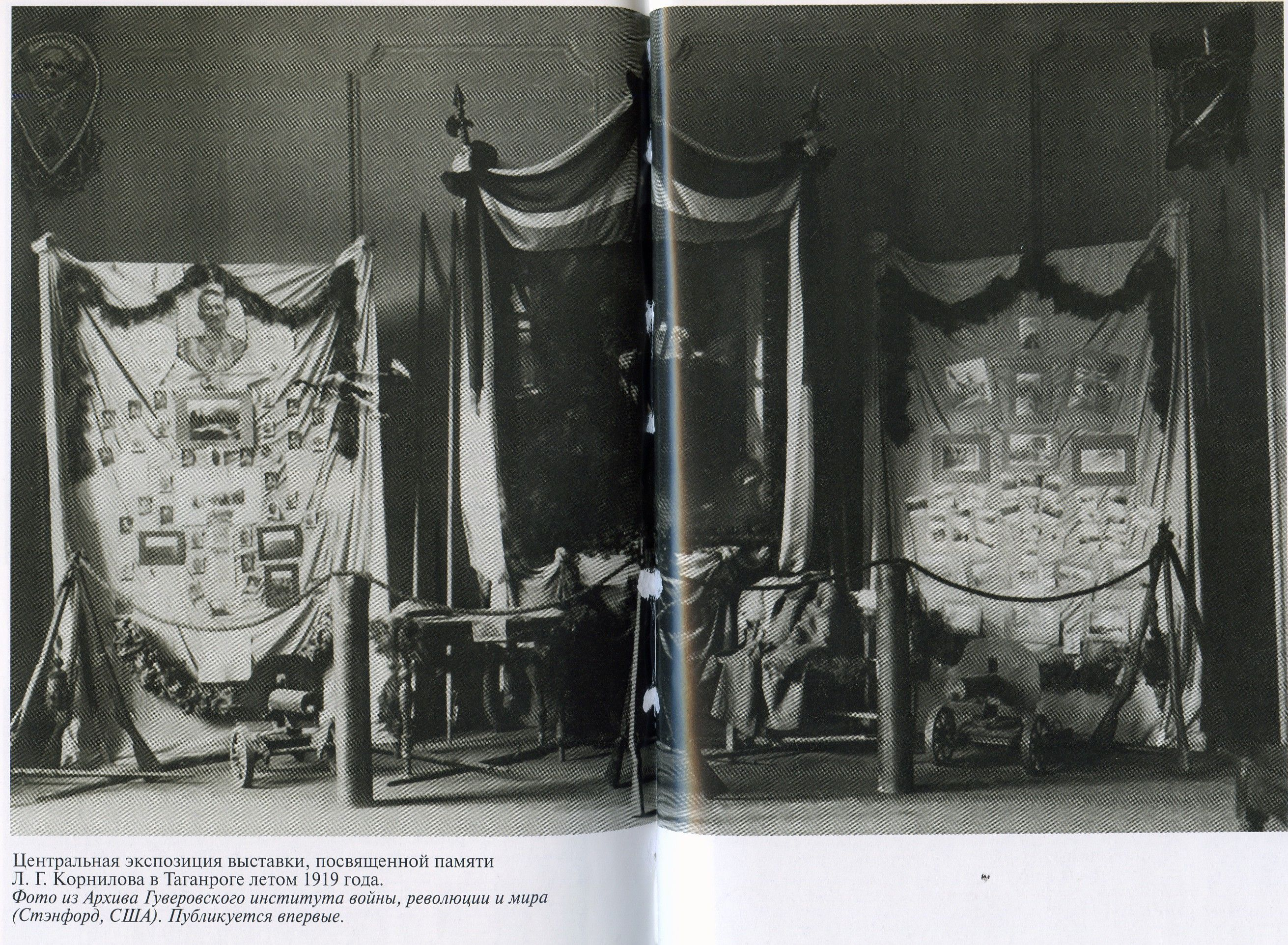 Photo of interior of temporary exhibition dedicated to General Lavr Kornilov, one of the leaders of Russian White Movement, while in Taganrog, Russia, summer 1919.